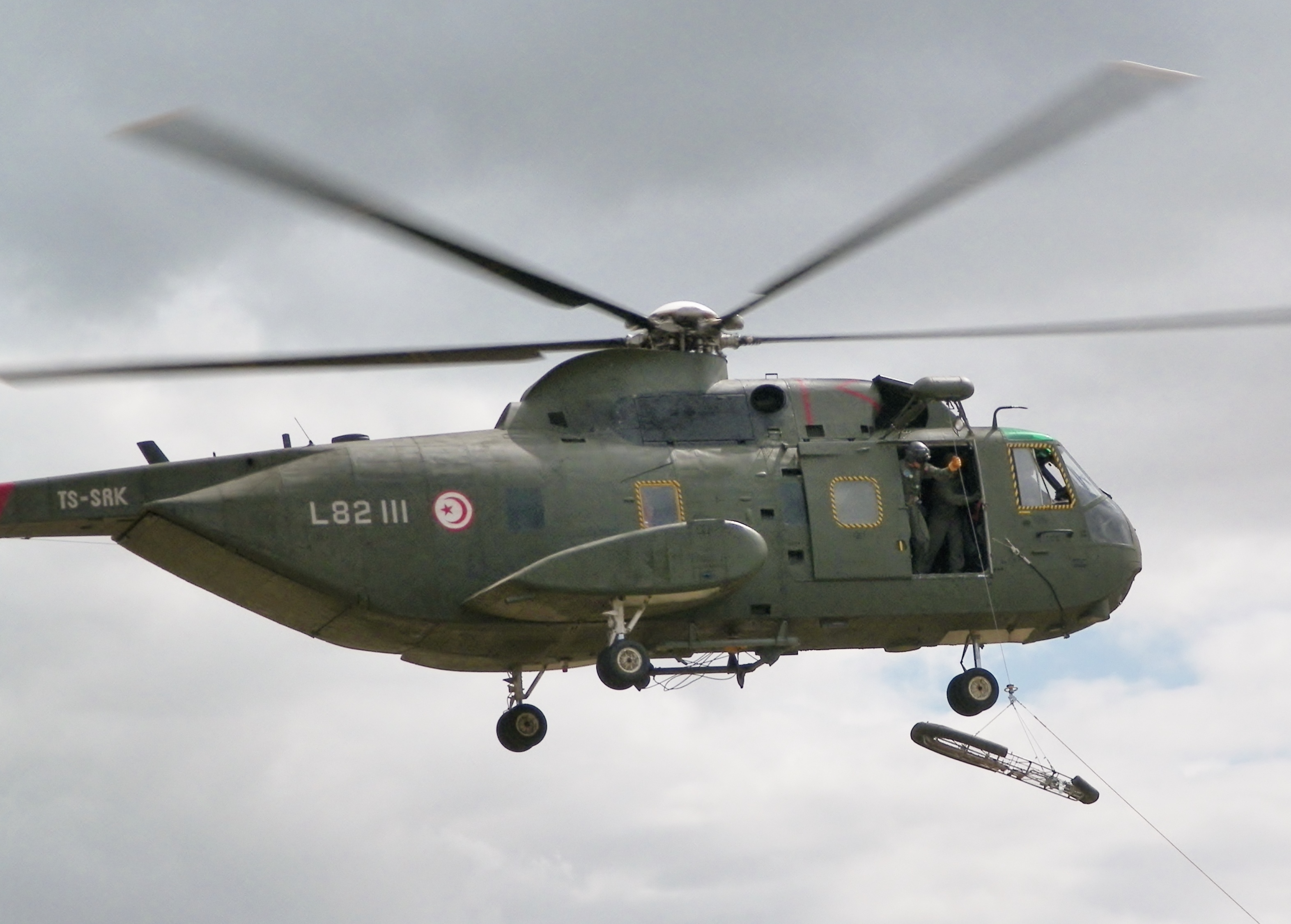 Members of the Wyoming Air National Guard and the Tunisian medical military personnel participate in a Medlite training exercise in Bizerte, Tunisia, May 22-24. The Wyoming National Guard and Tunisia have been partners in the National Guard Bureau’s State Partnership Program since 2004. Wyoming Air National Guard personnel have participated in a number of exercises and exchanges in Tunisia since the partnership began.